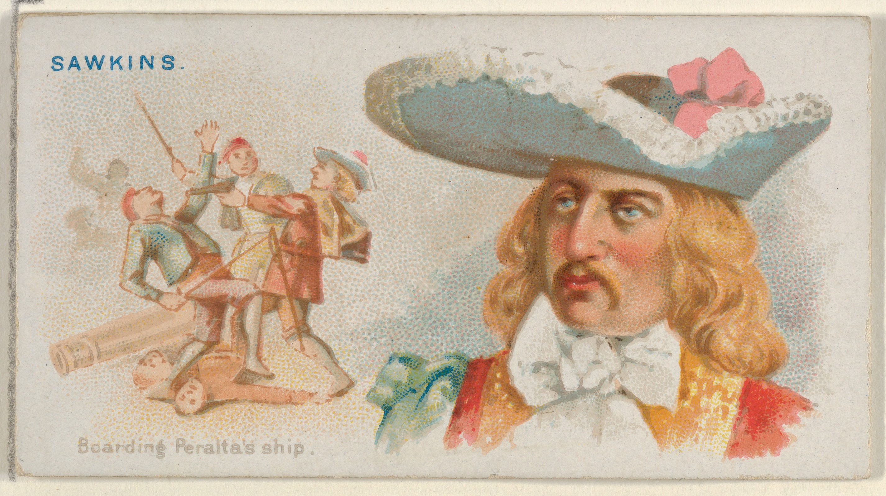 Print; Prints